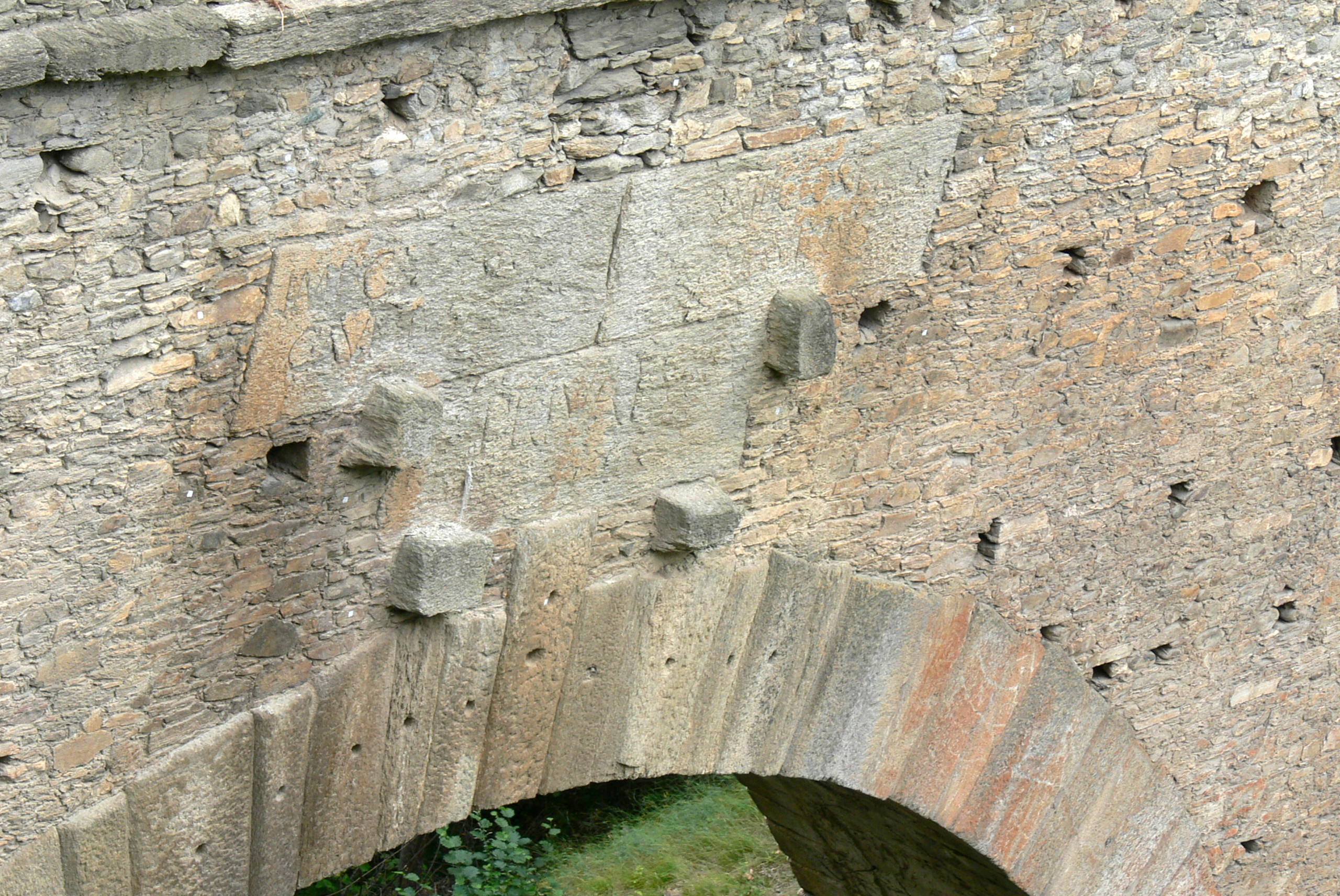 Pondel ( Aosta Valley ). Roman aquaeduct of Pont d'Aël ( 3 BC ) - foundation inscription ( CIL 5, 6899 ).